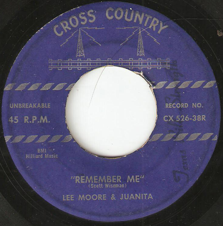 Remember Me by Lee & Juanita Moore, Cross Country ca. 1953.